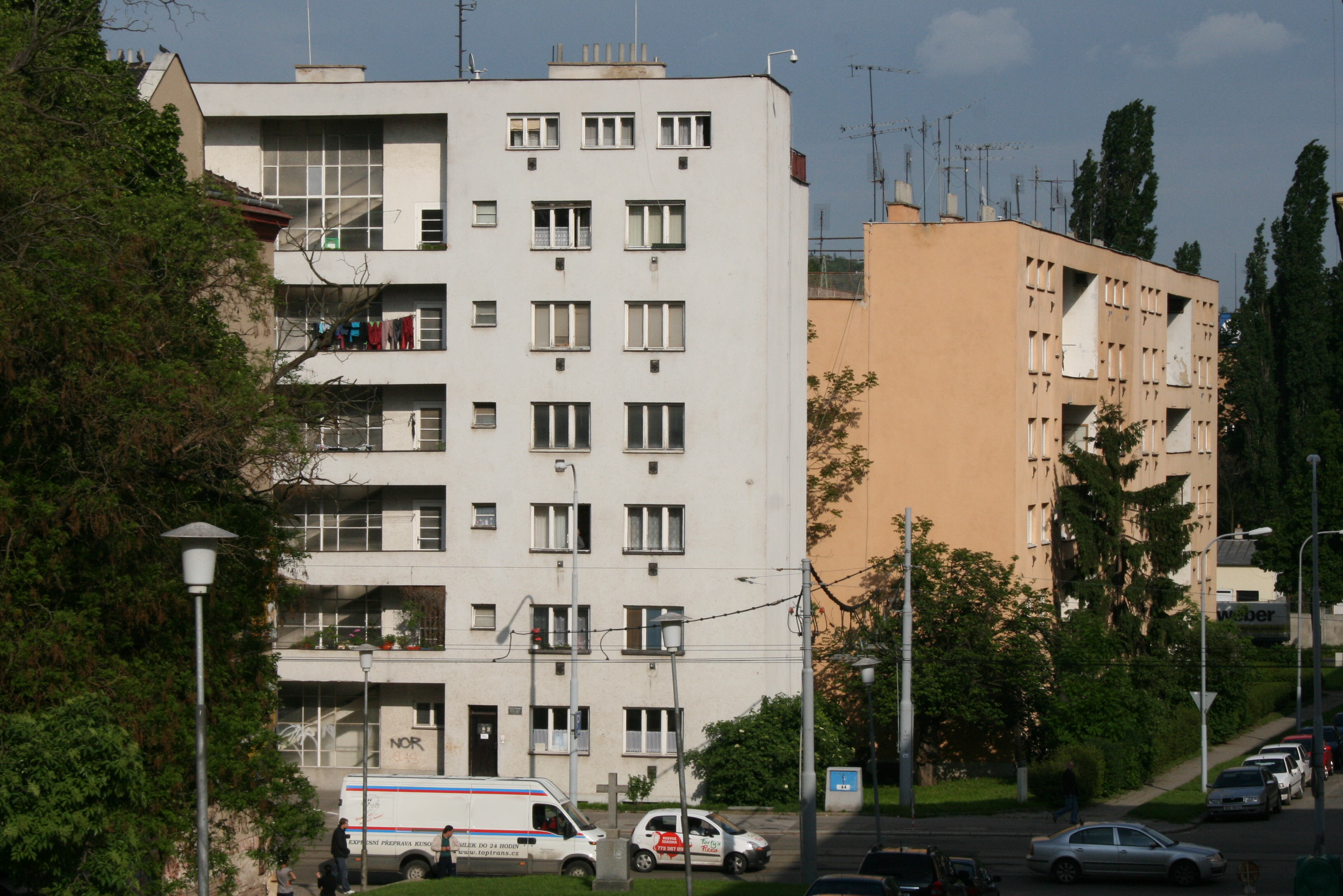 Small-flat housing estate at Vranovská street and Trávníčkova street, Brno (Zábrdovice), Czech Republic. Functionalist building by Josef Polášek. View from Merhautova street.